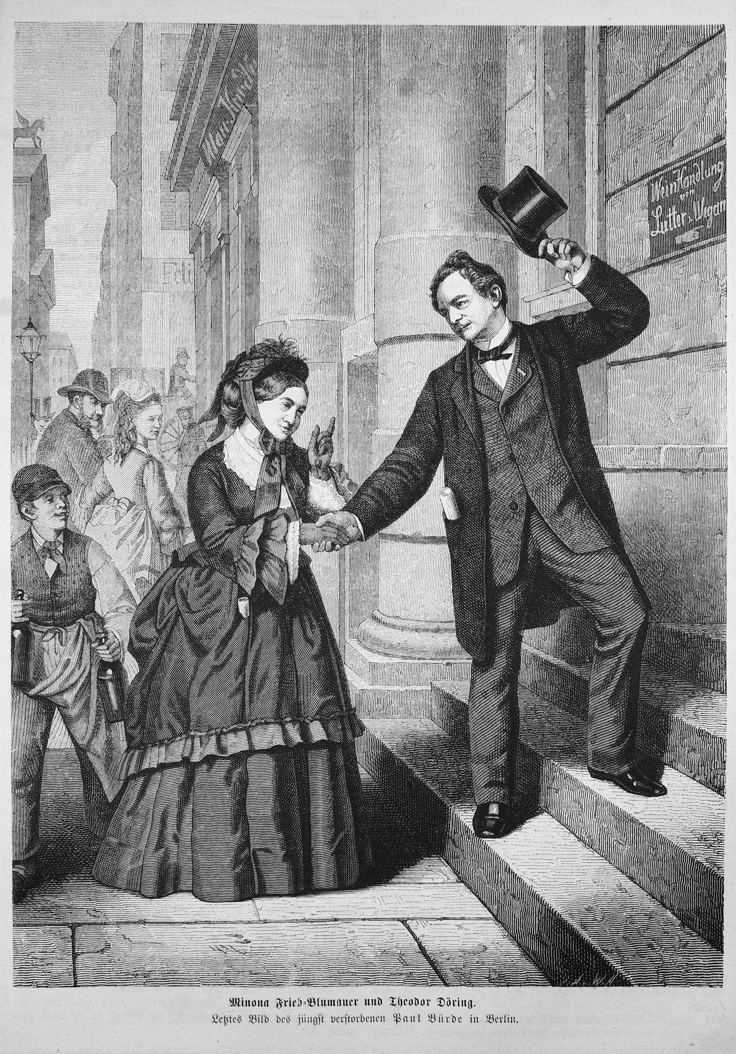 caption: "Minona Frieb-Blumauer und Theodor Döring. Letztes Bild des jüngst verstorbenen Paul Bürde in Berlin."